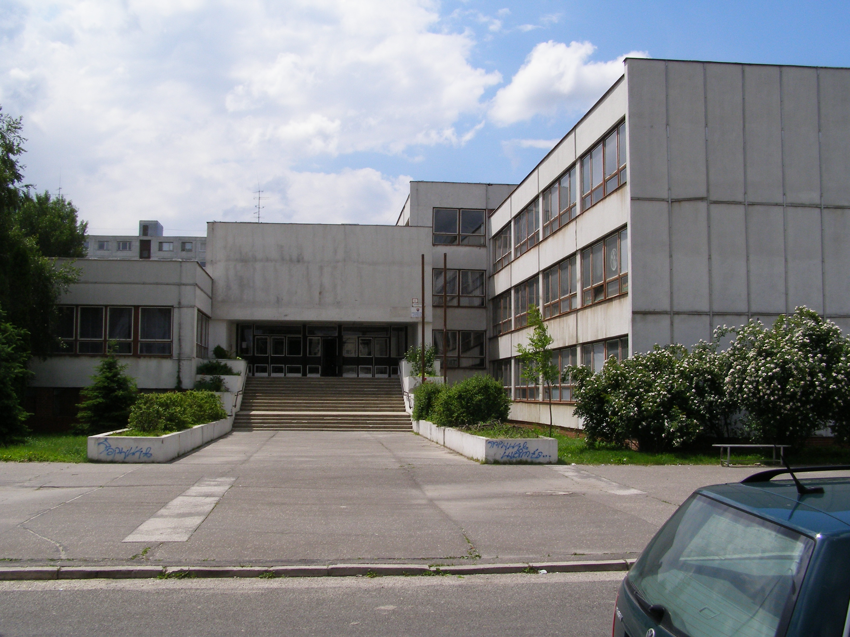 Elementary school Prokofievova 5, Petržalka, Bratislava, Slovakia